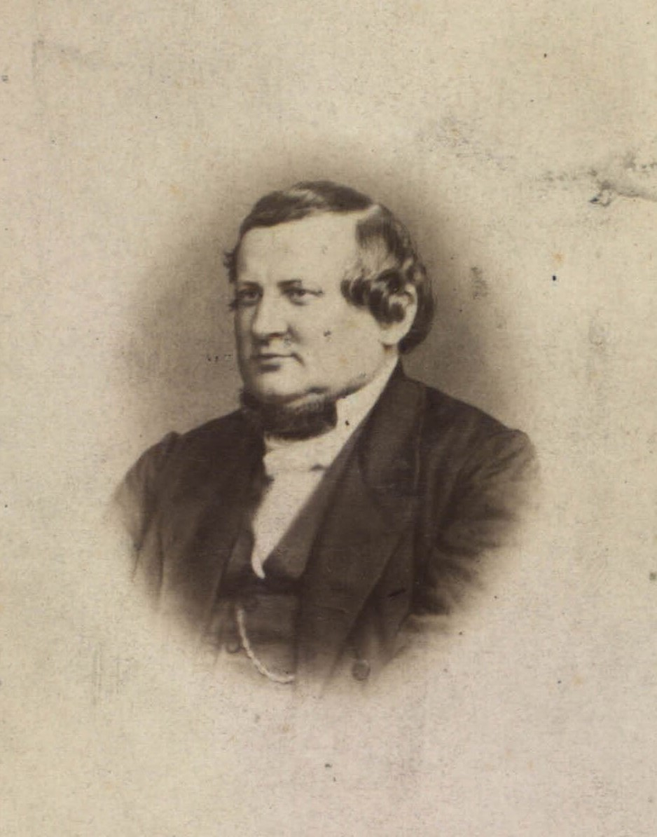 Danish Minister of Justice Carl Peter Gram Leuning (1820-1867)